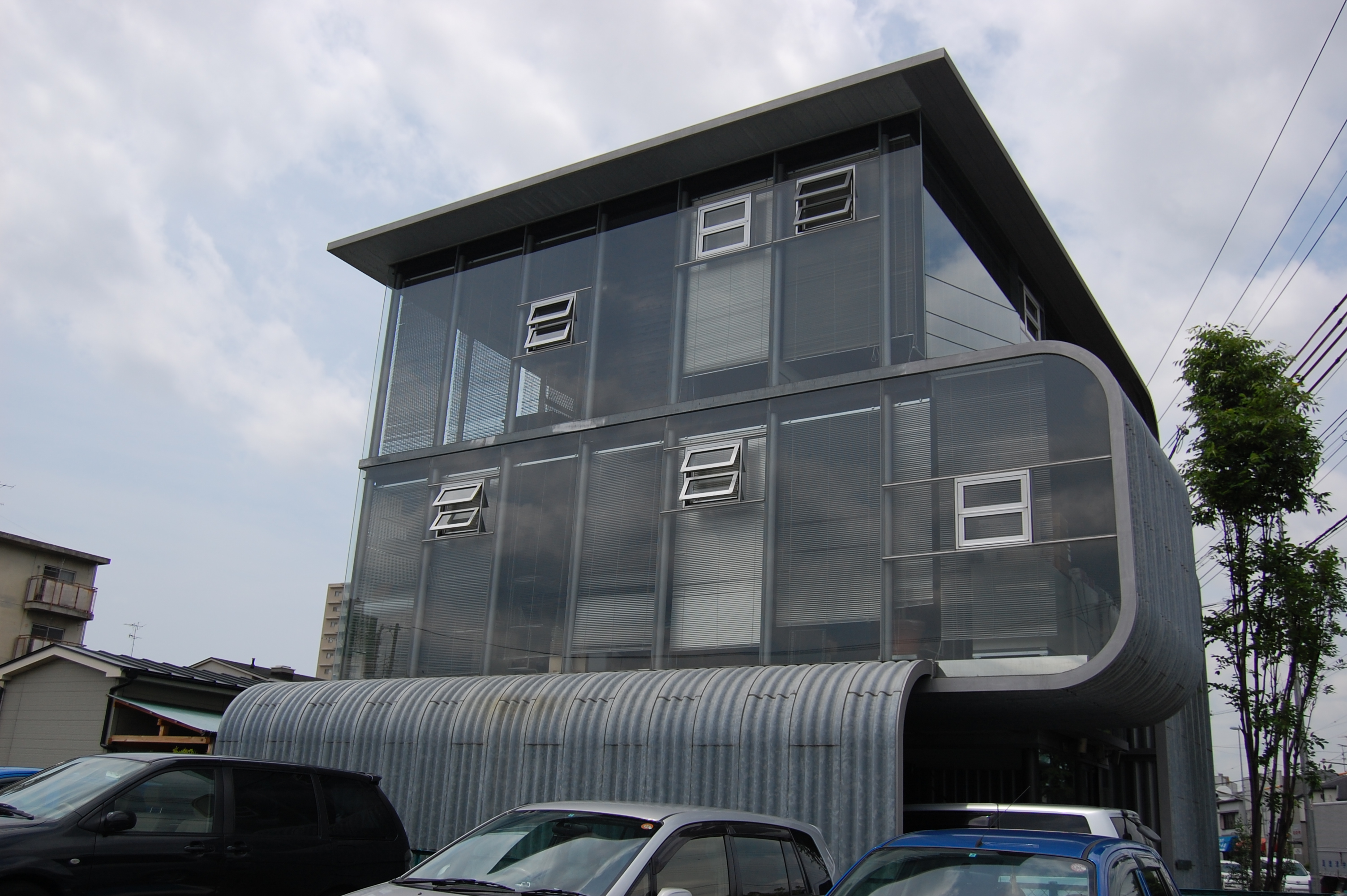 Rooftecture AWE designed by Endō Shuhei.